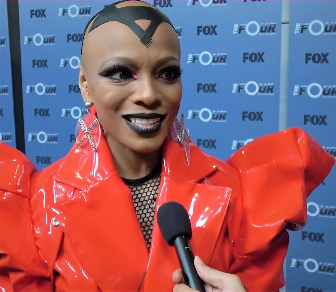 🍭 Sharaya J from 'The Four' shares plans to make a movie by Dulce Osuna